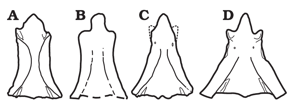 Outline drawings of azygous (i.e. an originally paired bone is fused to a single one) frontals of individuals of different genera of the family Albanerpetontidae (Tetrapoda: Lissamphibia) in ventral view (not to scale). The azygous frontal is considered one of the key characters of the albanerpetontids. A) Anoualerpeton, B) Celtedens, C) Wesserpeton, D) Albanerpeton.